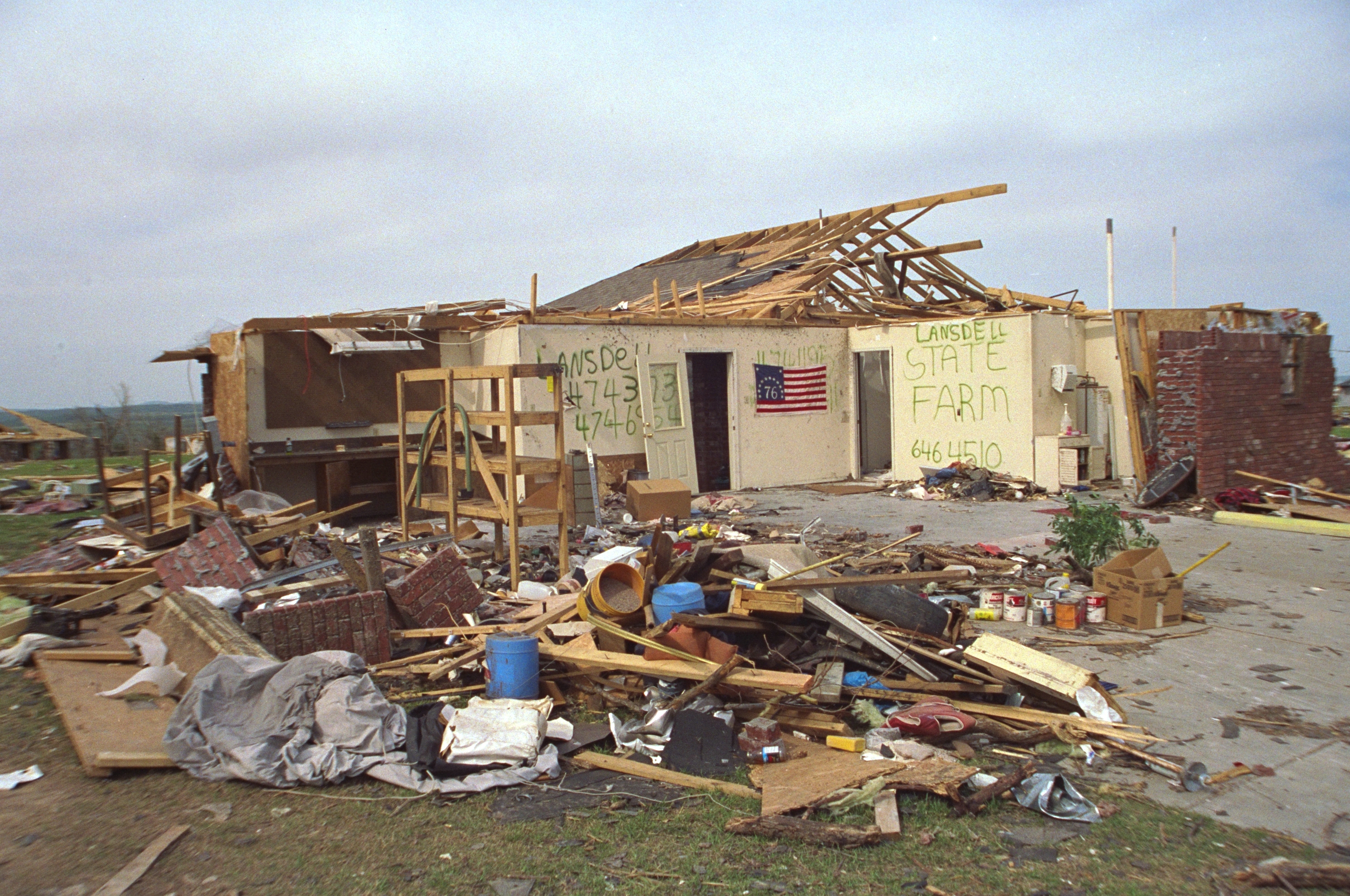 Dade County, FL, August 24, 1992 -- Many houses, businesses and personal effects suffered extensive damage from one of the most destructive hurricanes ever recorded in America. One million people were evacuated and 54 died in this hurricane. FEMA News Photo